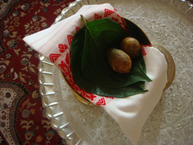 Tamulpanor xorai represents cultural symbolism of respect towards the recipient from the person presenting it.